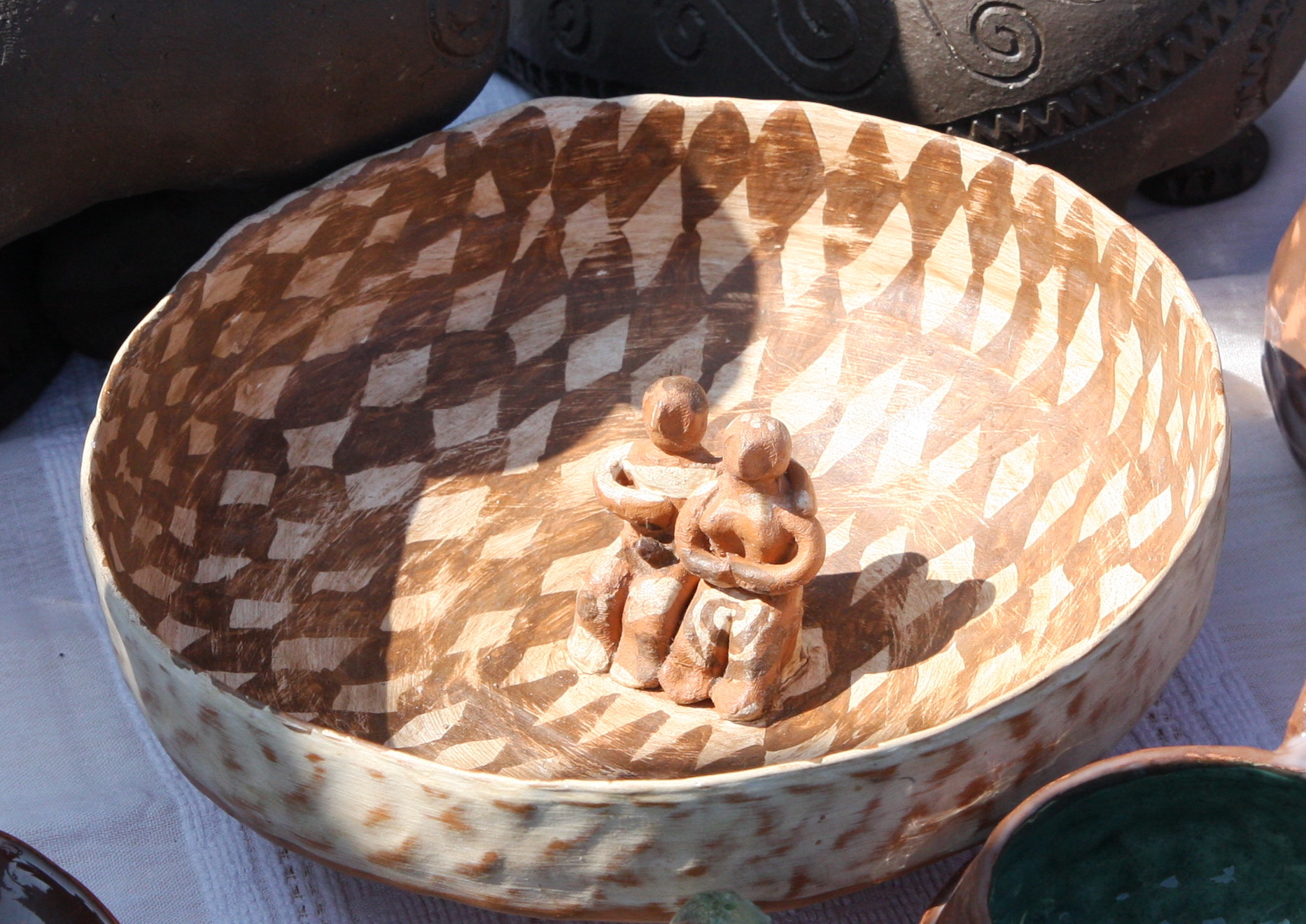 Modern reproduction of Gumelnitza culture cereamics